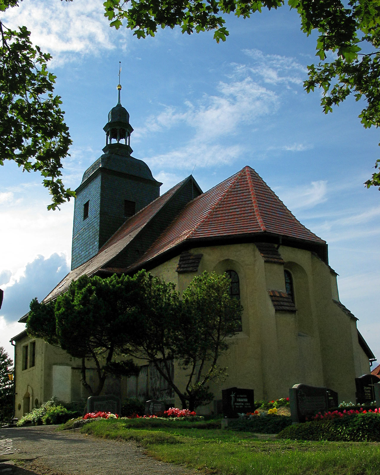 Protestant church in Gebelzig, municipality of Hohendubrau, east Saxony, Germany.